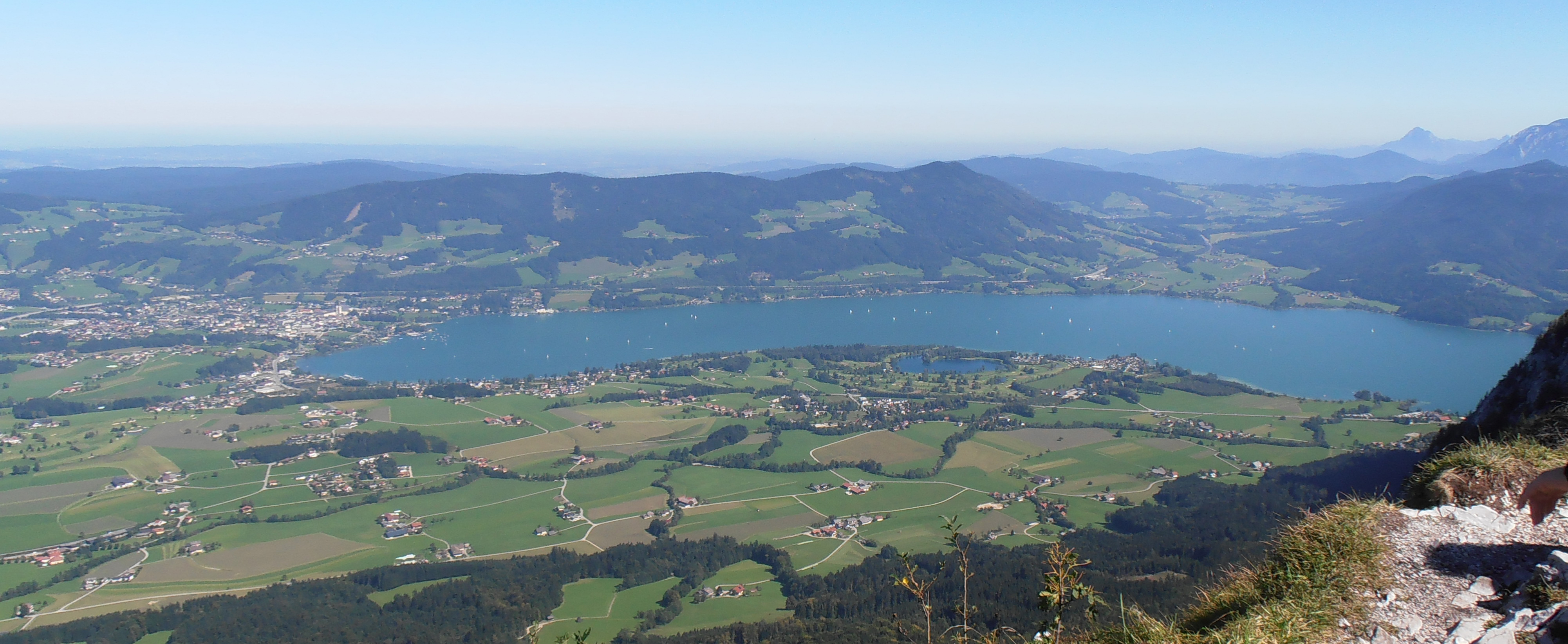 Mondsee from Schober